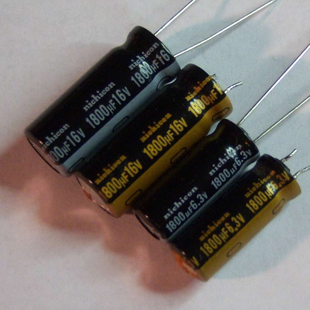 New Nichicon caps compared to bad "Nichicon" caps.